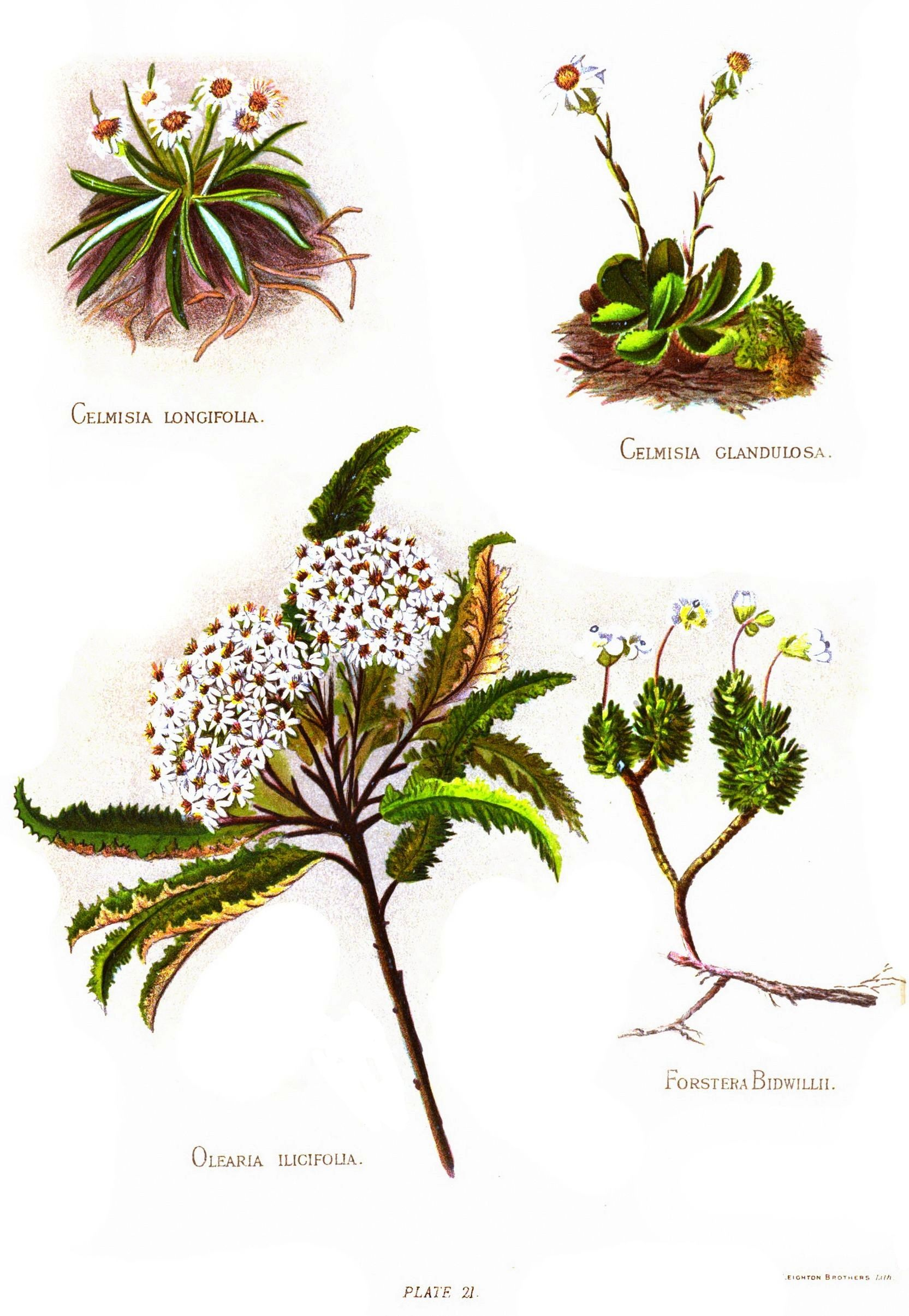 group of four plants